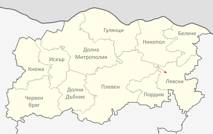 map of the Oblast Pleven in Bulgaria, in Bulgarian